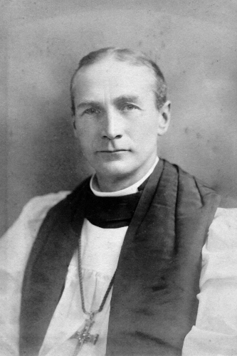 Carte de visite photo of Arthur Winnington-Ingram (1858-1946) Bishop of London. Studio of Elliot & Fry. The sitter looks at least ten years older than his 1901 photo, File:Arthur Winnington-Ingram Bishop of London 003.jpg, and this is a carte de visite, so the probable date is 1910-1914. This photo was originally uploaded here on 19 June 2012 by Greyhead, as a scan from the original CDV in the user's possession.